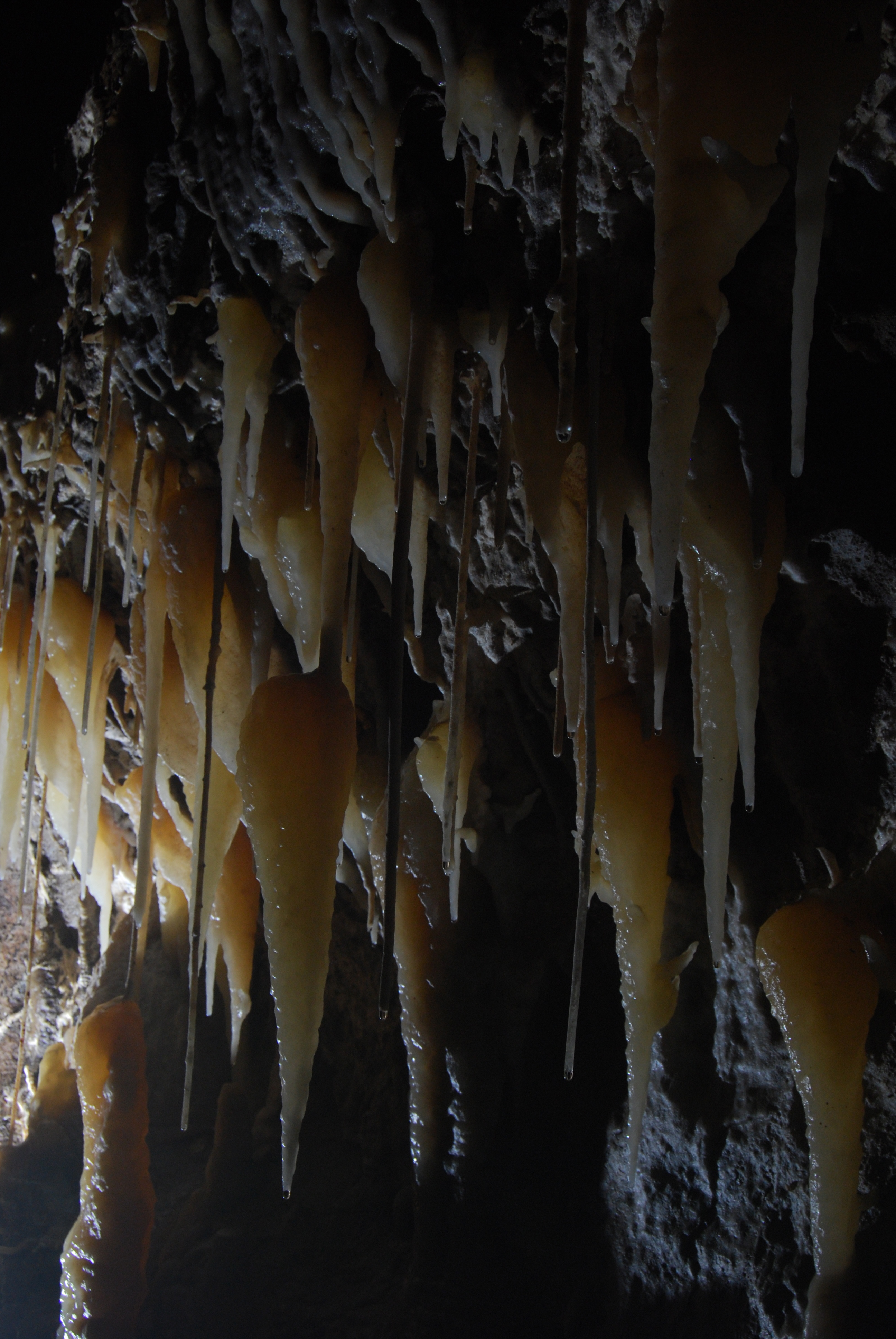 This shows a series of carrot and parsnip shaped formations in Shannon Cave, Ireland, known as the Vegetable patch.